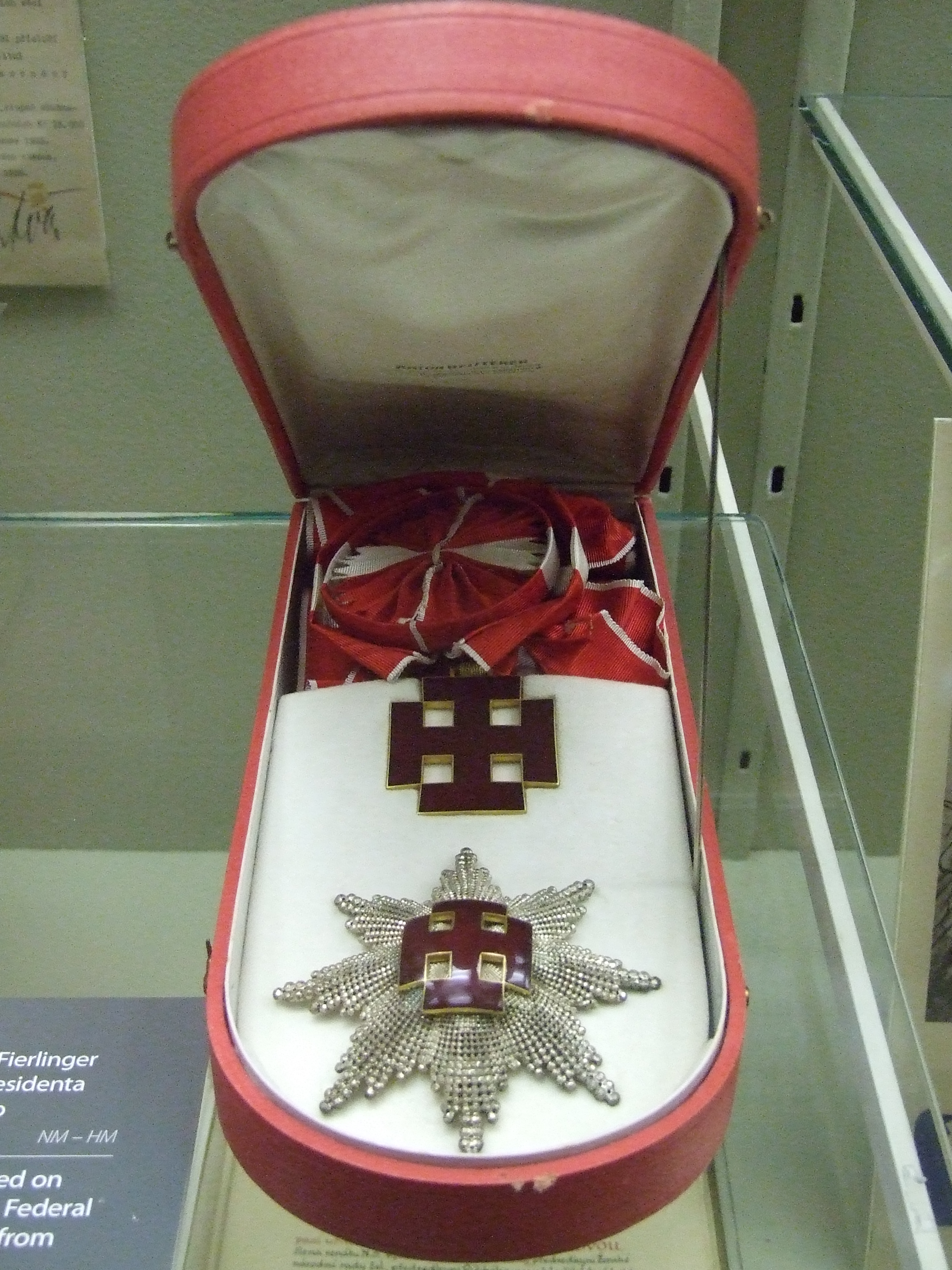 The Republic exhibition, National Museum in Prague